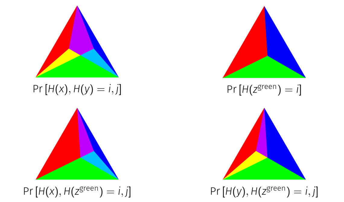 The probability jaccard index is optimal in the following sense. If a sampling method has more collisions than the probability jaccard index on two distributions, x and y, then there must be a pair of distributions that are more similar under the probability jaccard index than x and y are on which that sampling method has fewer collisions. This diagram shows the proof mechanism graphically on 3 element distributions. For x and y to collide more on the green element, they have to give up collisions with z on either red or blue, and can’t gain any more on green to compensate. As a result, the collisions with z must decrease, but z is more similar to both x and y than they are to each other.